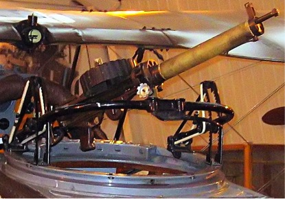 Scarff ring on a WWI British biplane (Bristol F.2B) at the Shuttleworth Collection